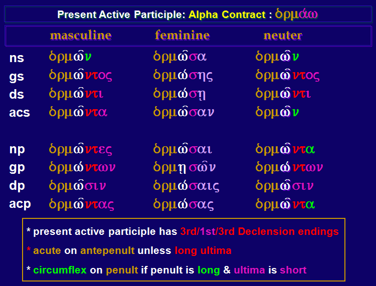 Greek: Present Active Participle of hormao